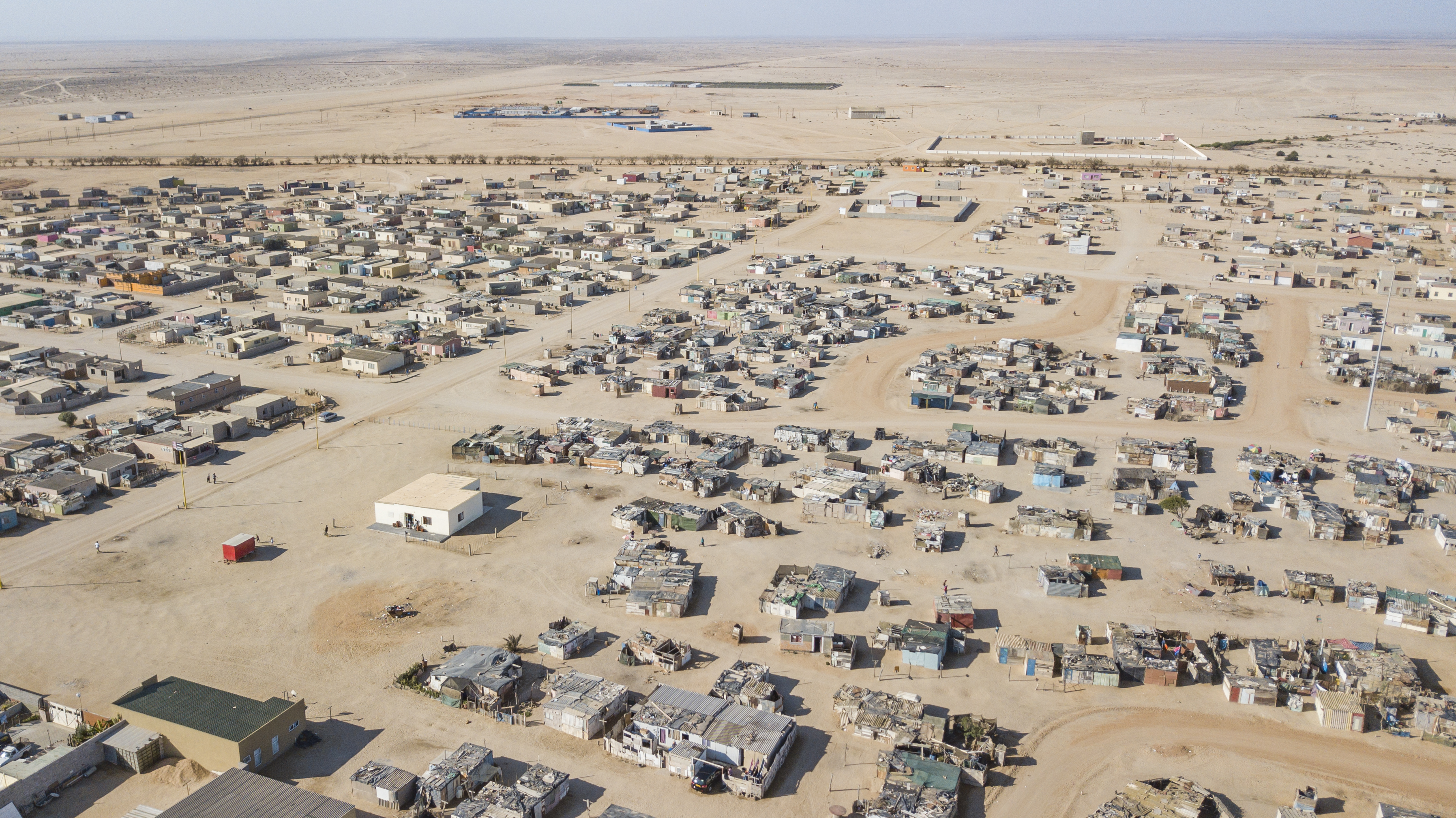 Kamwandi, Henties Bay, Arandis, Erongo, Namibia